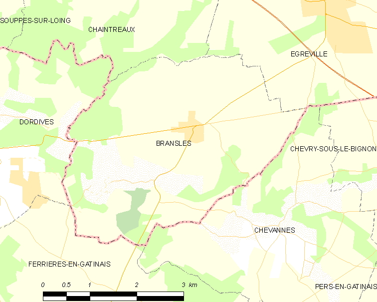 Map of French municipality Bransles